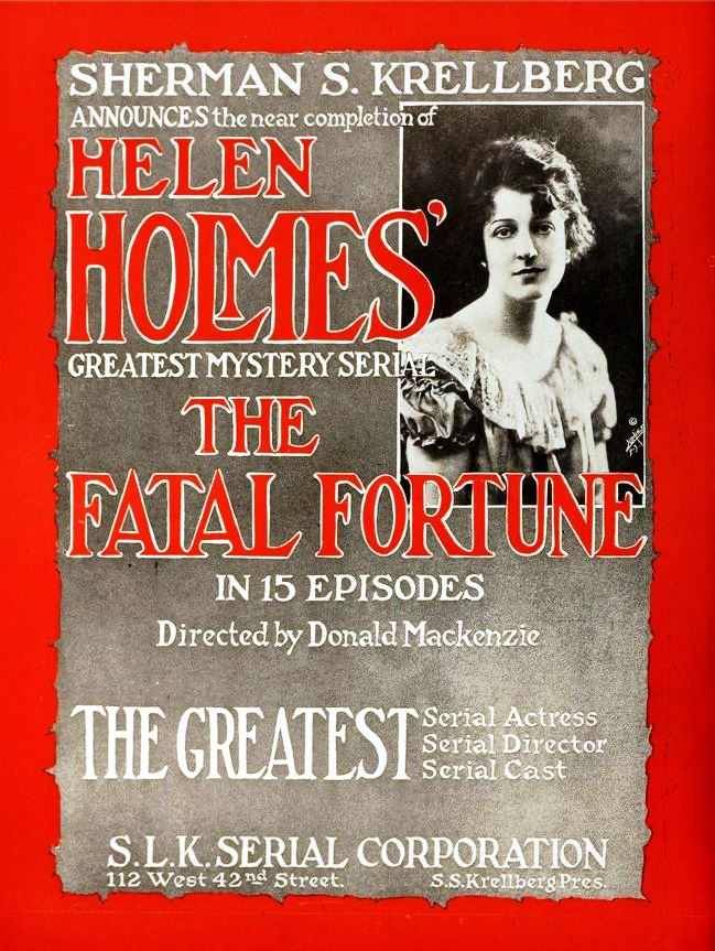 Ad for the American film serial The Fatal Fortune (1919) with Helen Holmes, page 1390 of the August 16, 1919 Motion Picture News.